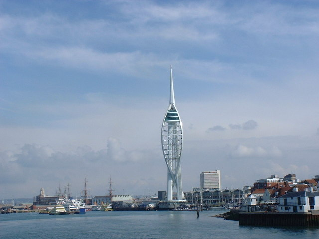 The Spinnaker Tower, Portsmouth. Seen from the ferry to Isle of Wight.